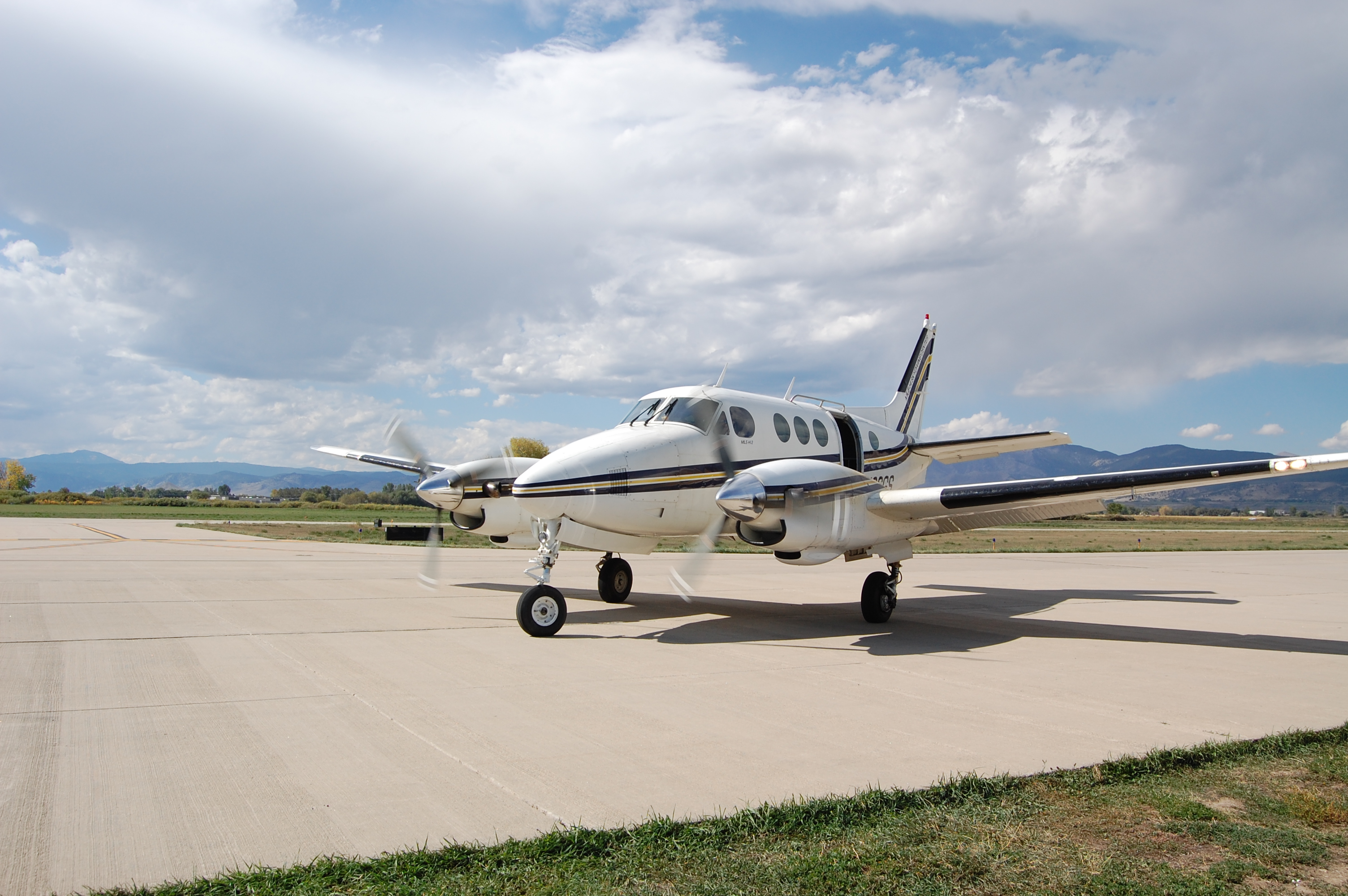 Mile-Hi Skydiving Center's Beechcraft King Air A90 at Longmont Vance Brand Airport.